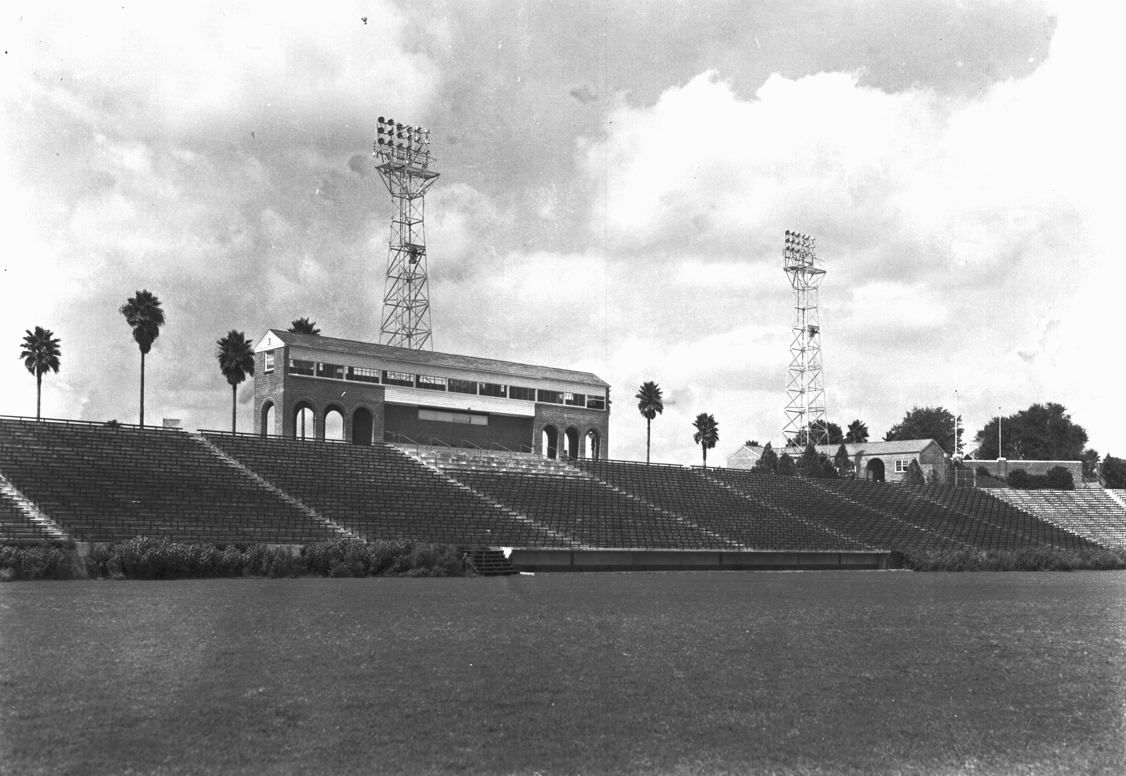 A historic photo of Florida Field